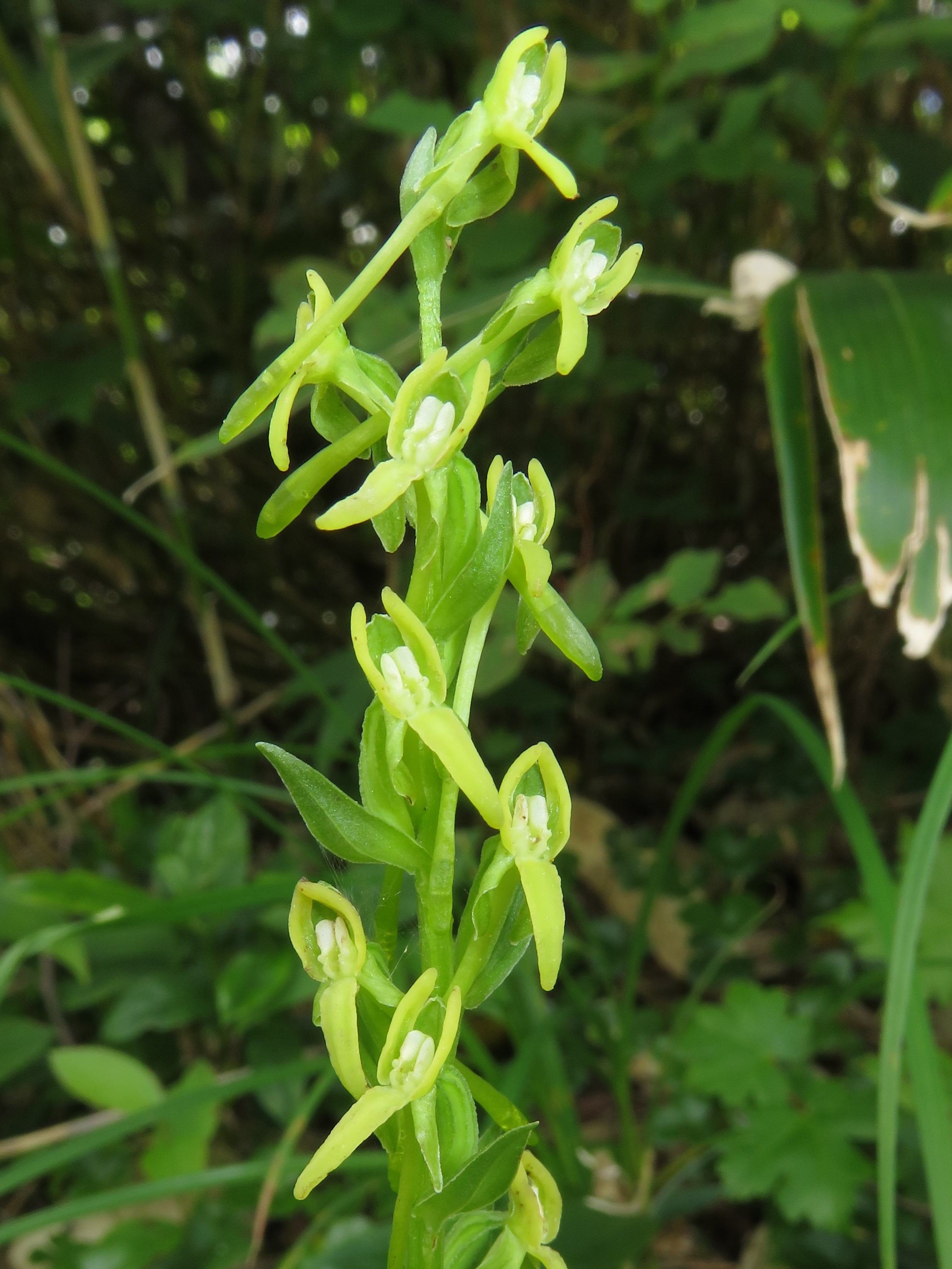 Platanthera tipuloides var. sororia, Mount Aizu-Komagatake, Fukushima pref., Japan